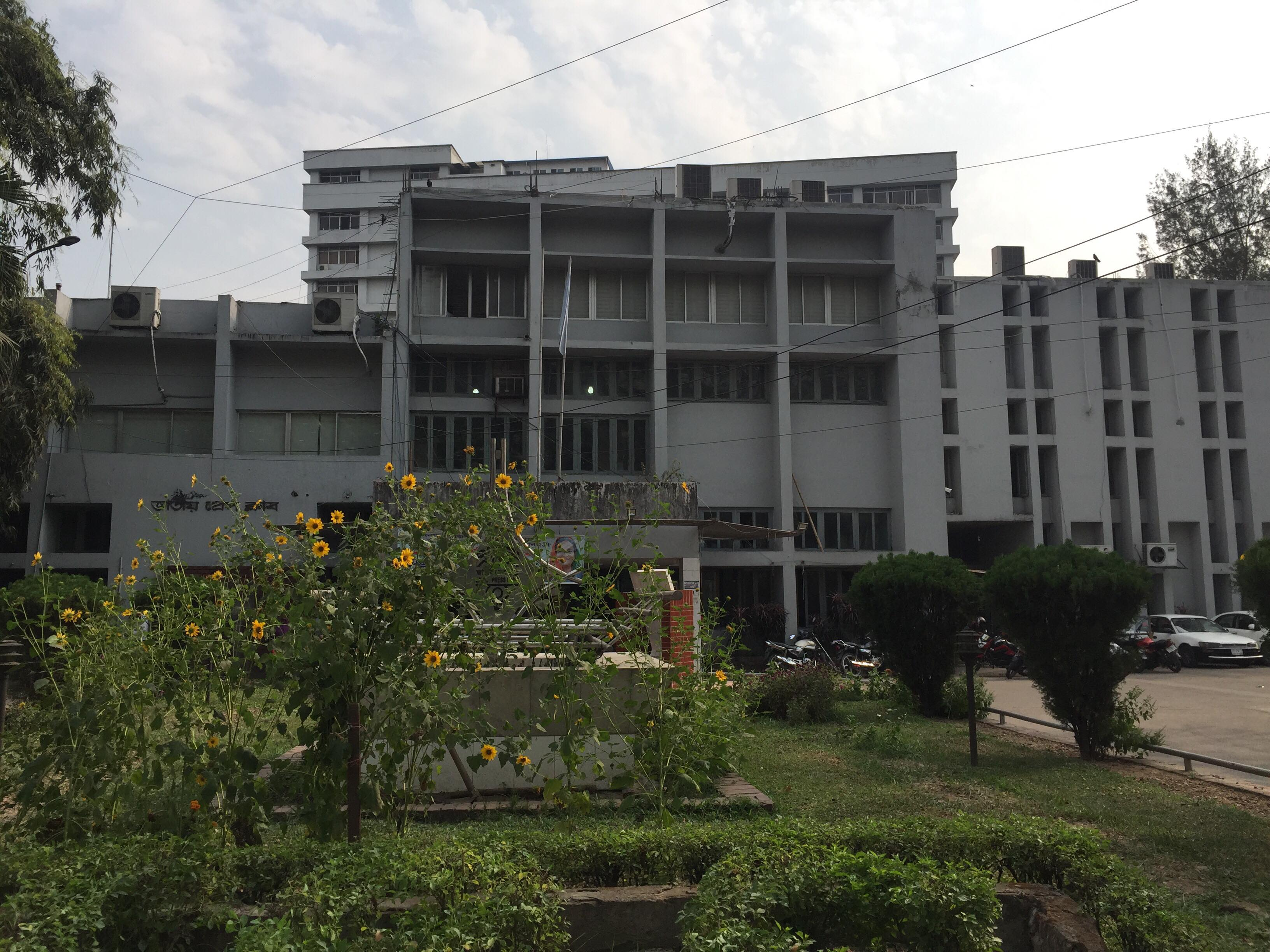 Bangladesh National Press Club building, Dhaka